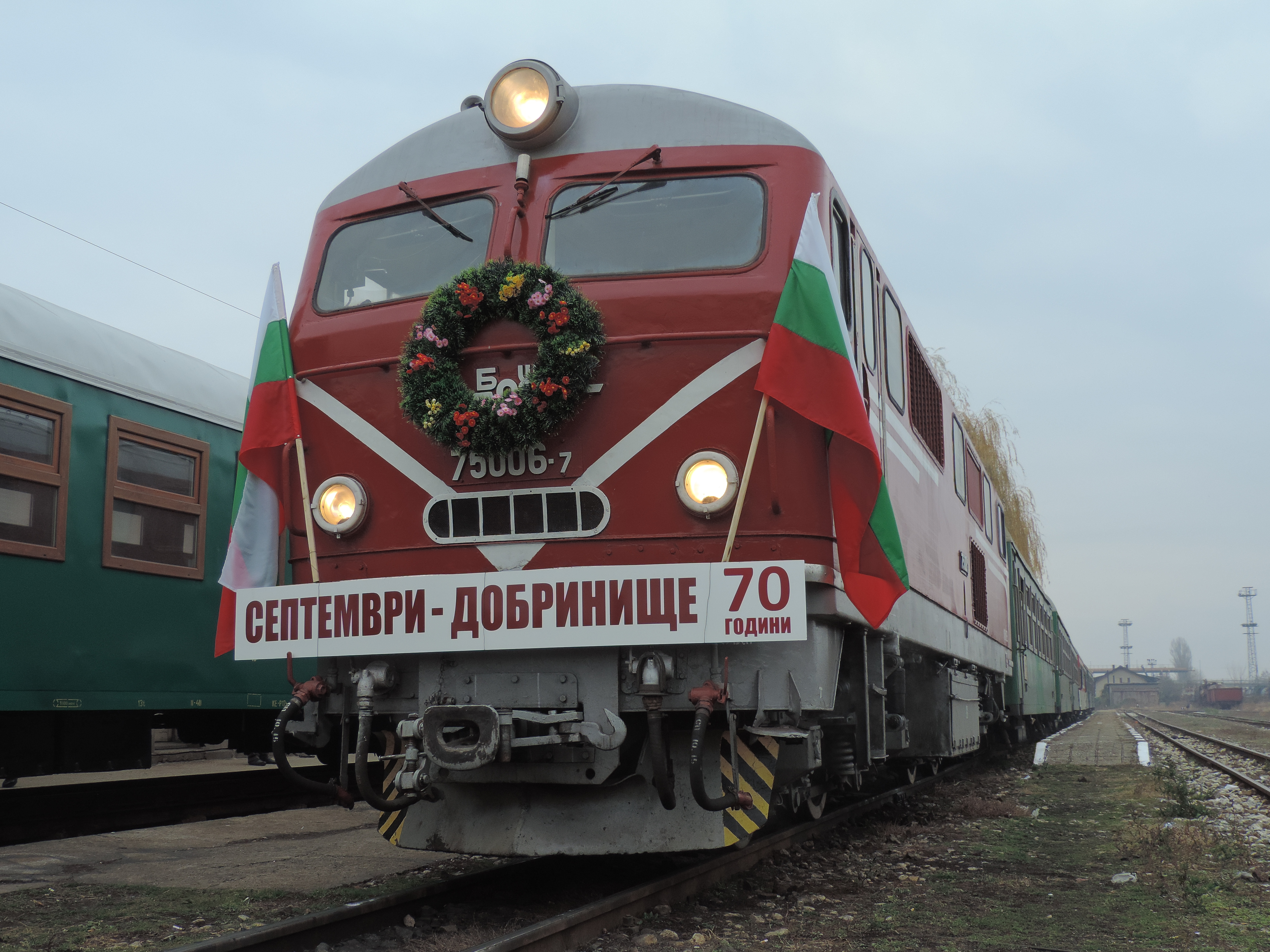 The train on the 70th anniversary of the opening of the Septemvri - Dobrinishte narrow gauge line, Bulgaria.